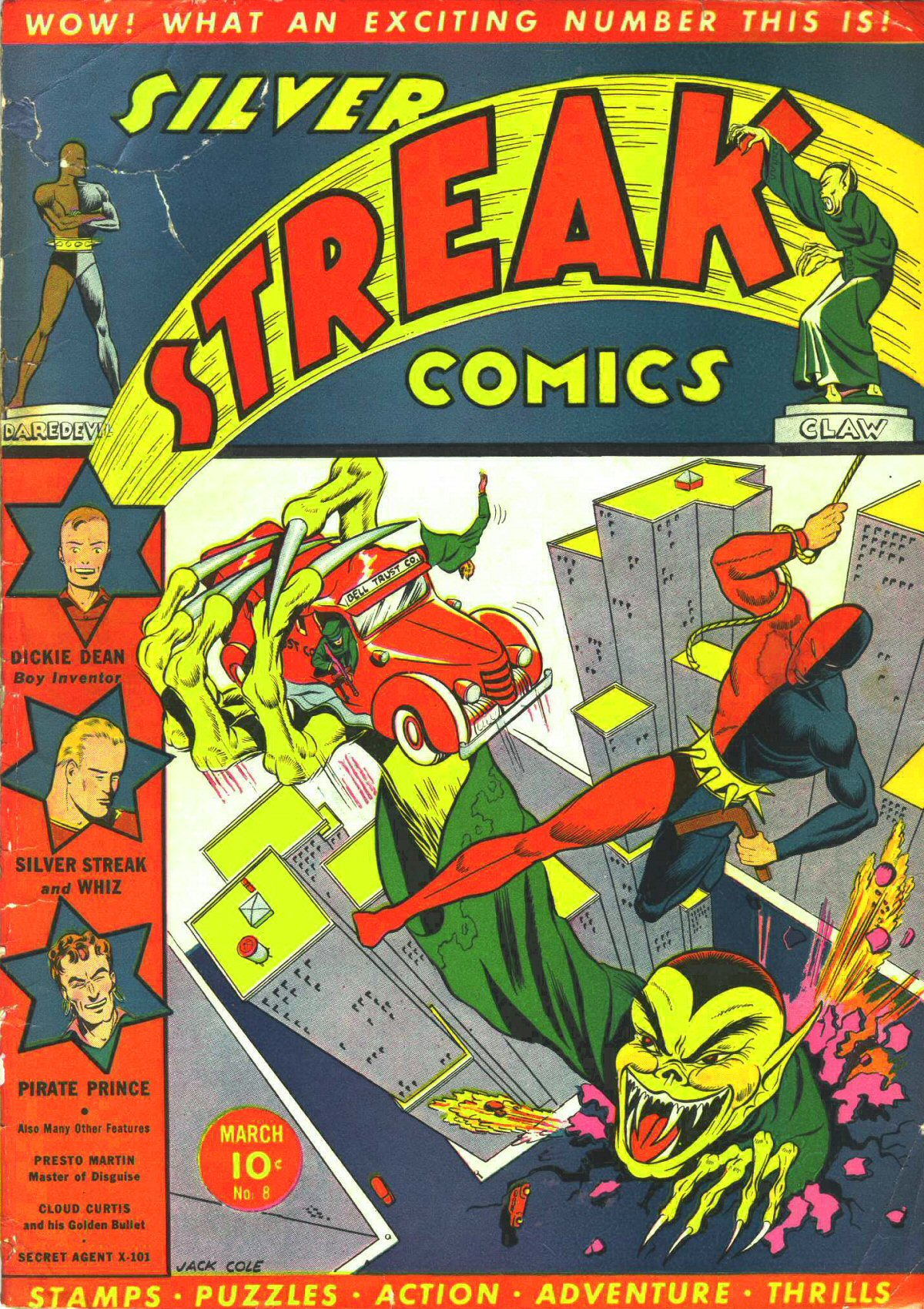 Cover of Silver Streak Comics #8 (March of 1941) Lev Gleason Pubs. (defunct co.)